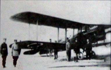 Airco DH.9A of Imperial Iranian Air Force.